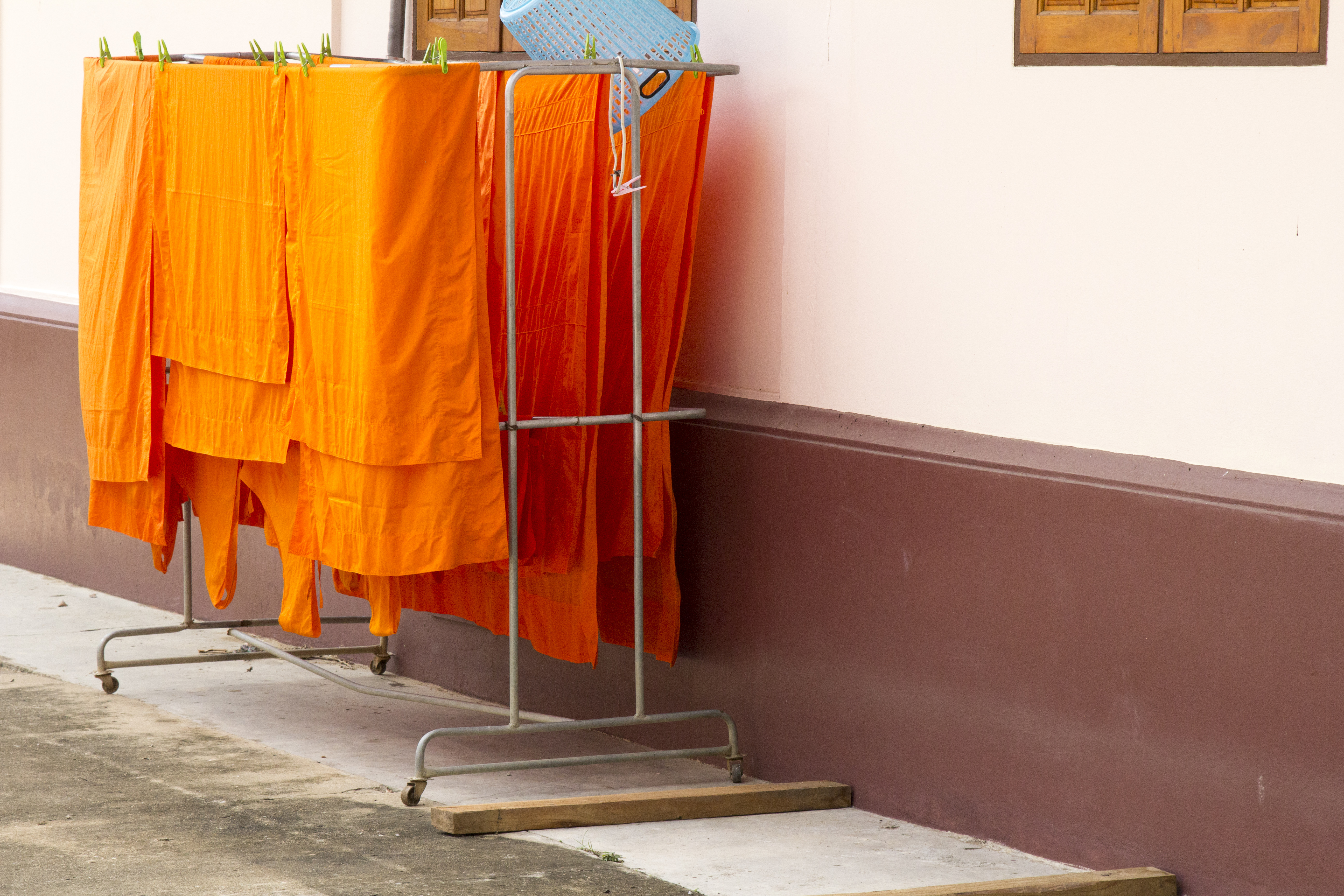 Thailand 2015